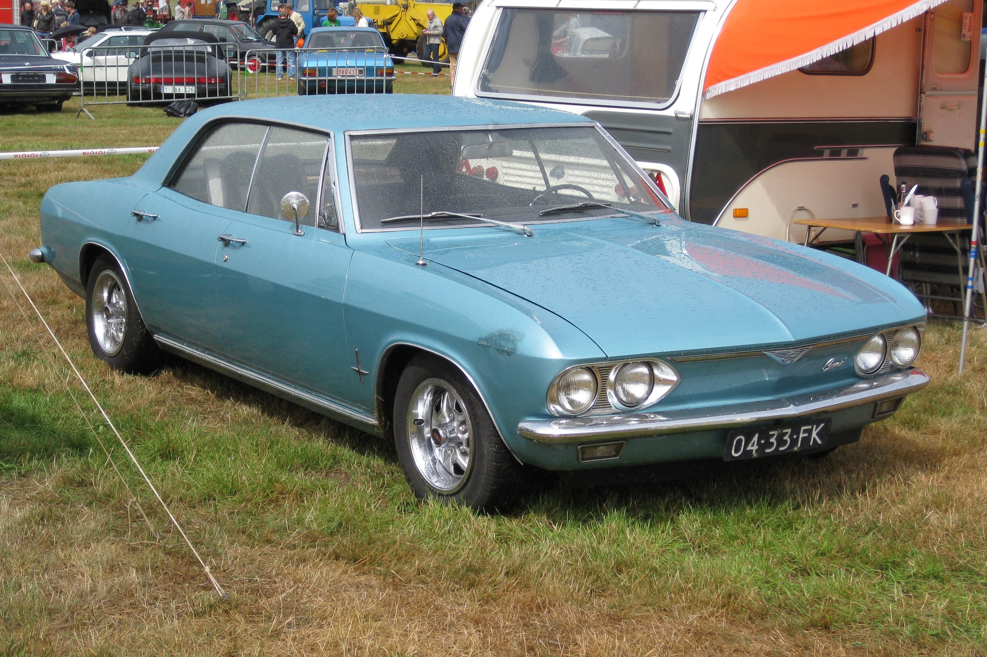 Chevrolet Corvair Sedan, Schaffen Diest Fly-Drive 2013